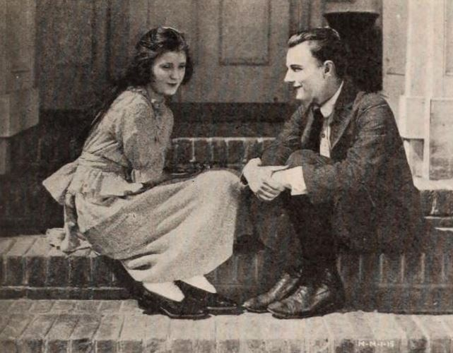 Still from the American comedy film Nobody's Kid (1921) with Mae Marsh and Paul Willis, on page 57 of the April 23, 1921 Exhibitors Herald.